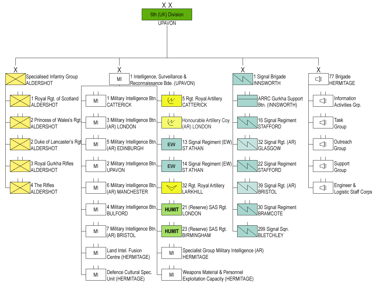 Structure of 3rd (UK) Division after the 2019 changes